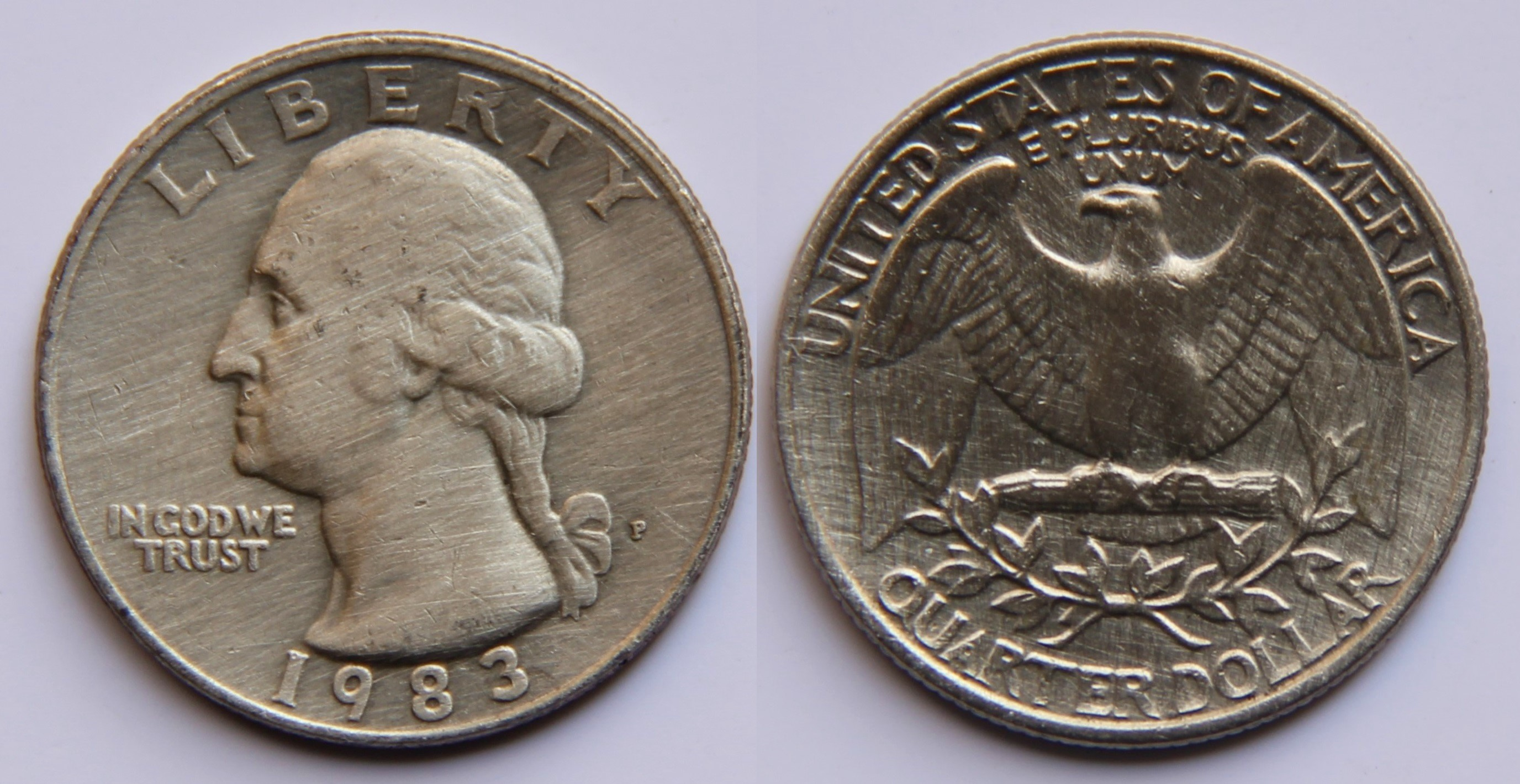 Face value: 1 Quarter (United States coin). Country: United States. Year of minting: 1983. Metal: Copper-nickel clad Copper. Shape: Round. Obverse: Portrait of George Washington, year and United States national motto (In God We Trust) with "LIBERTY" engraved on top. Reverse: Bald eagle with wings spread and standing on a shaft of arrows with two olive sprays. Face-value, the motto "E PLURIBUS UNUM" (Out of many, one) and lettering "UNITED STATES OF AMERICA". Edge: Reeded (119 reeds). Weight: 5.67 g. Diameter: 24.26 mm. Thickness: 1.75 mm. Orientation: Coin alignment ↑↓. Total mintage: 35,924,089,384 (1965 to 1998). Engraver: John Flanagan. Comment: Coin also known as "Washington Quarter". Monetary status: In-use. Data source: This webpage.